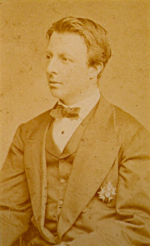 Prince Gaston of Orléans, Count of Eu, husband of Isabella, Princess Imperial of Brazil in Rio de Janeiro, 1865.